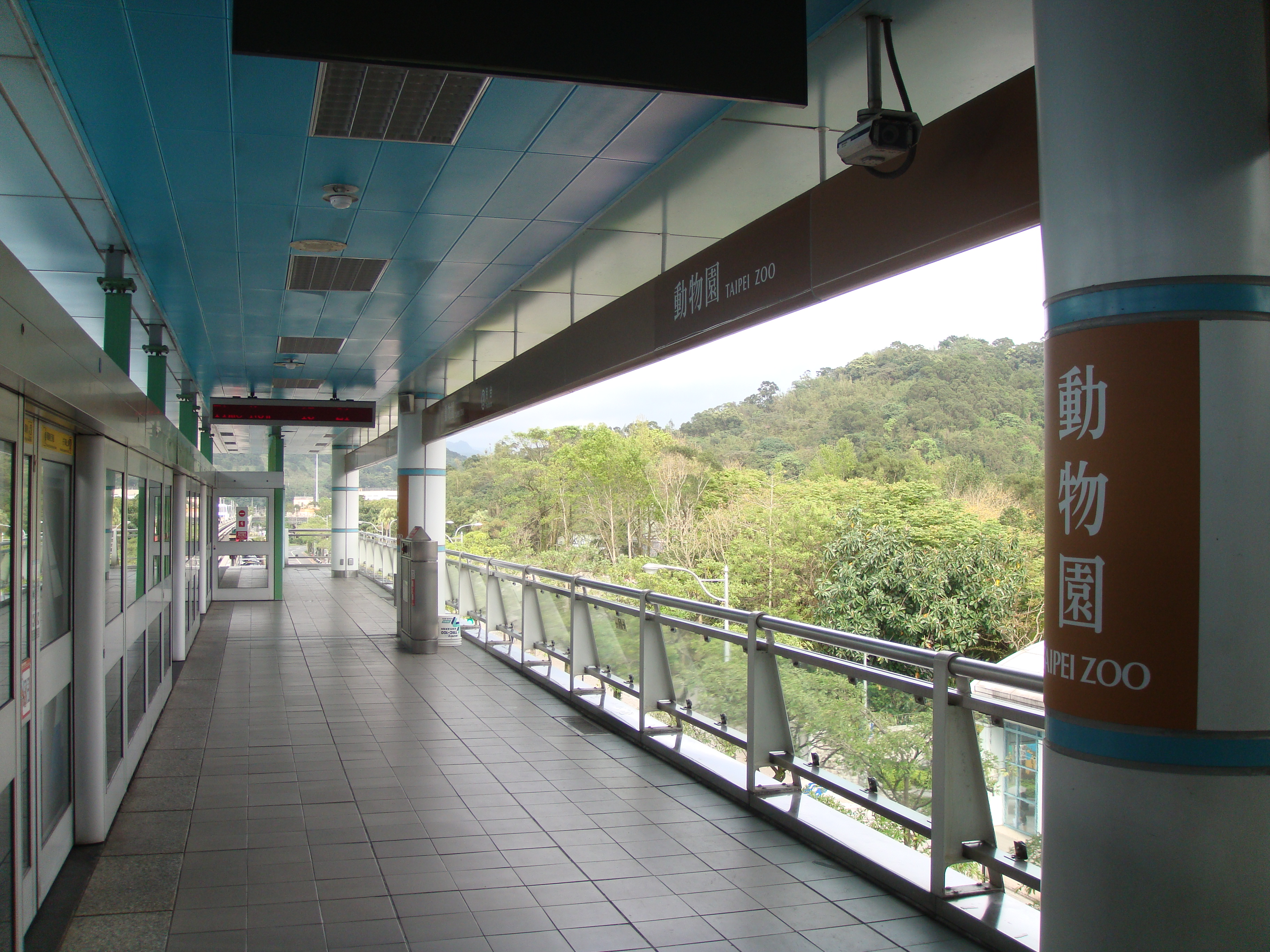 Interior of Taipei Zoo Station, Muzha Line, Taipei Metro, Taiwan.